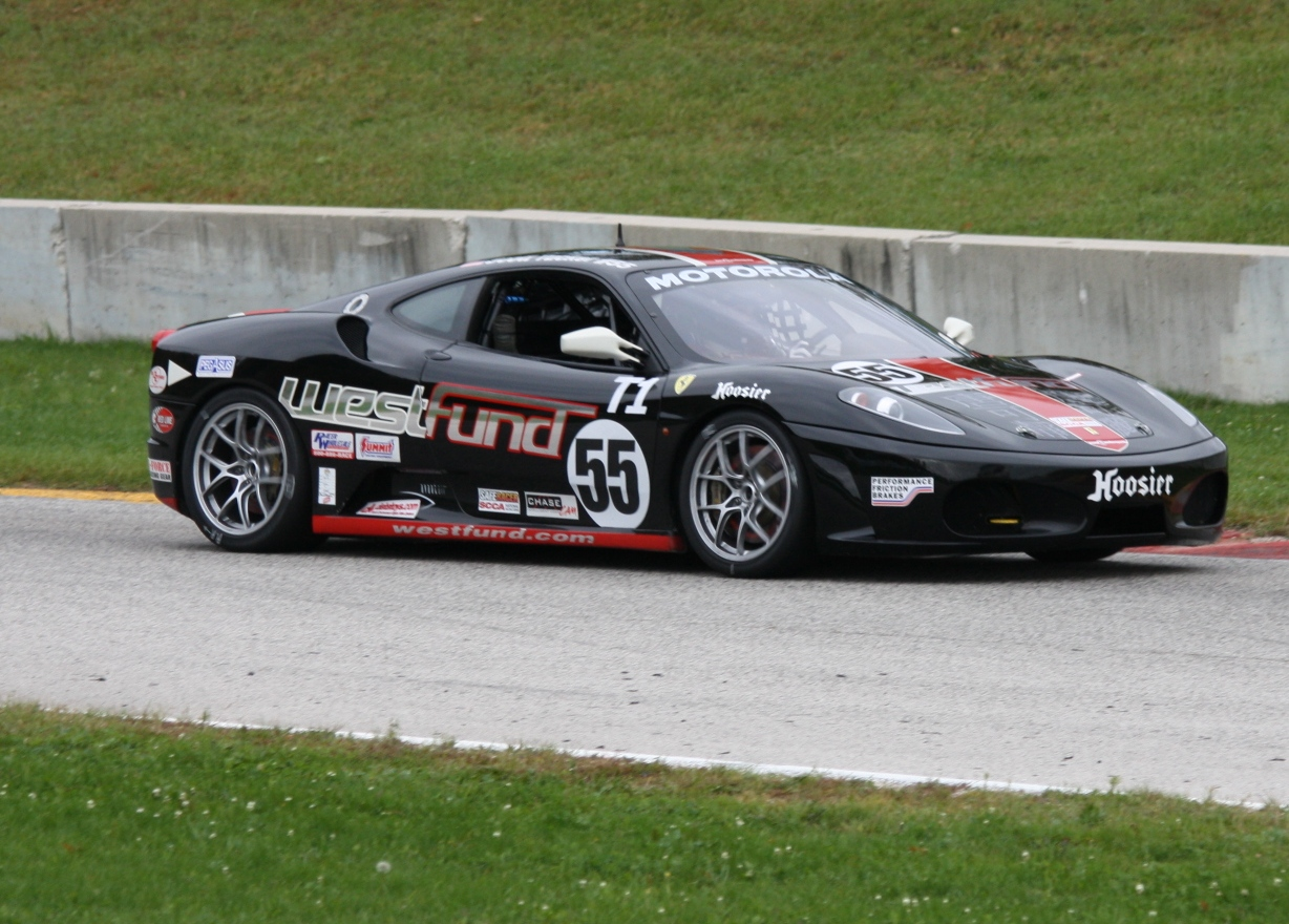 The T1 winner #55 Scott Tucker at the 2010 SCCA National Championship Runoffs.